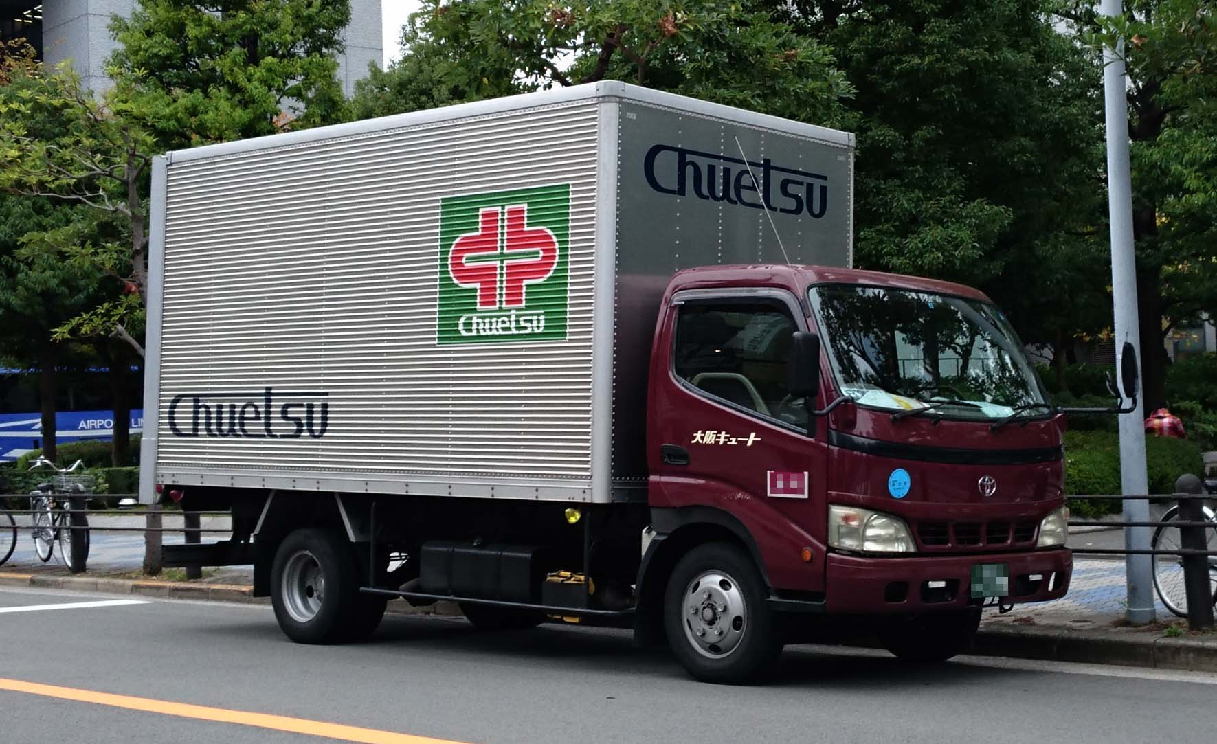 Chuetsu Transport Co.,Ltd. truck